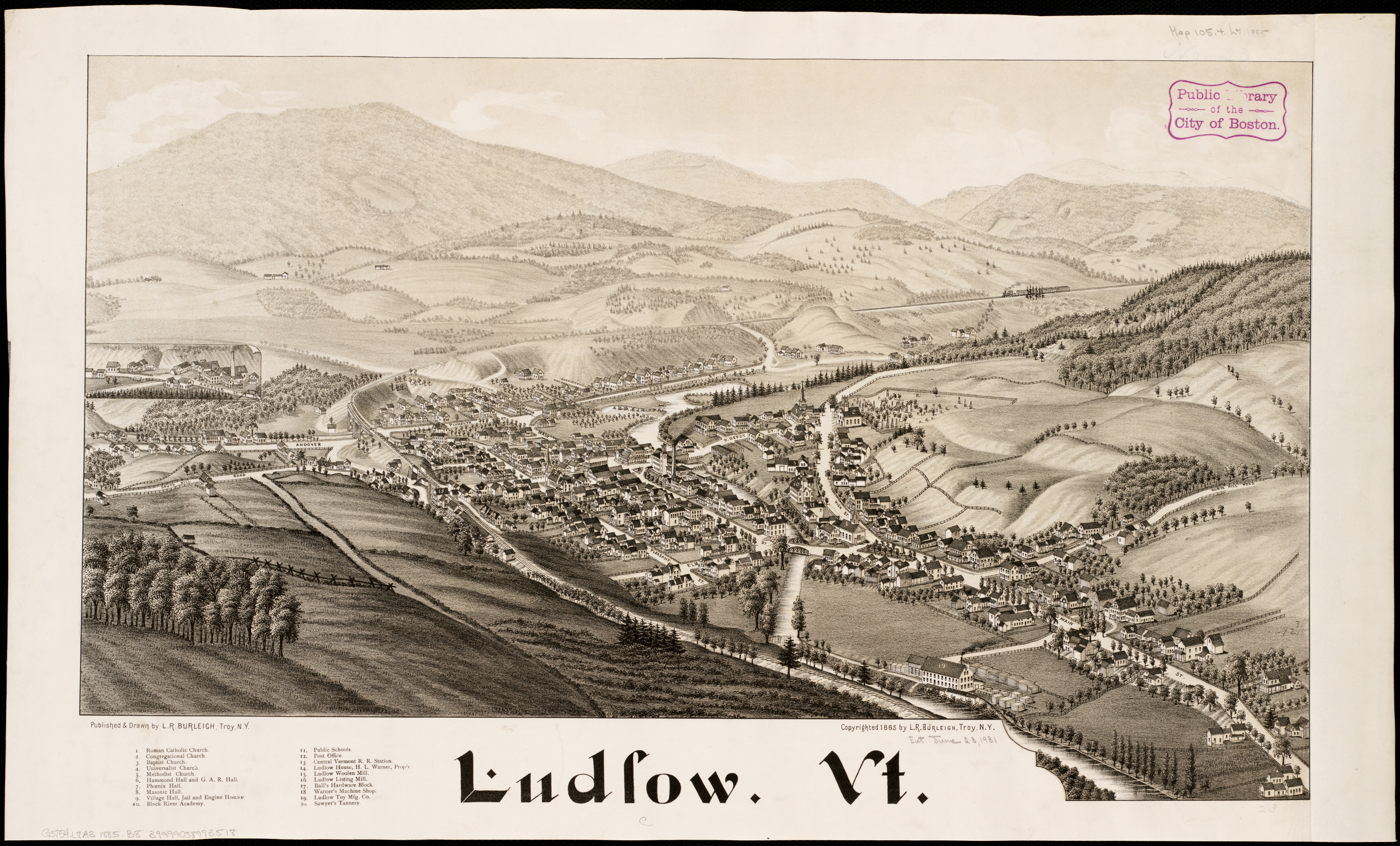 Circa-1885 birds-eye map of Ludlow, Vermont. Scale: Not drawn to scale.